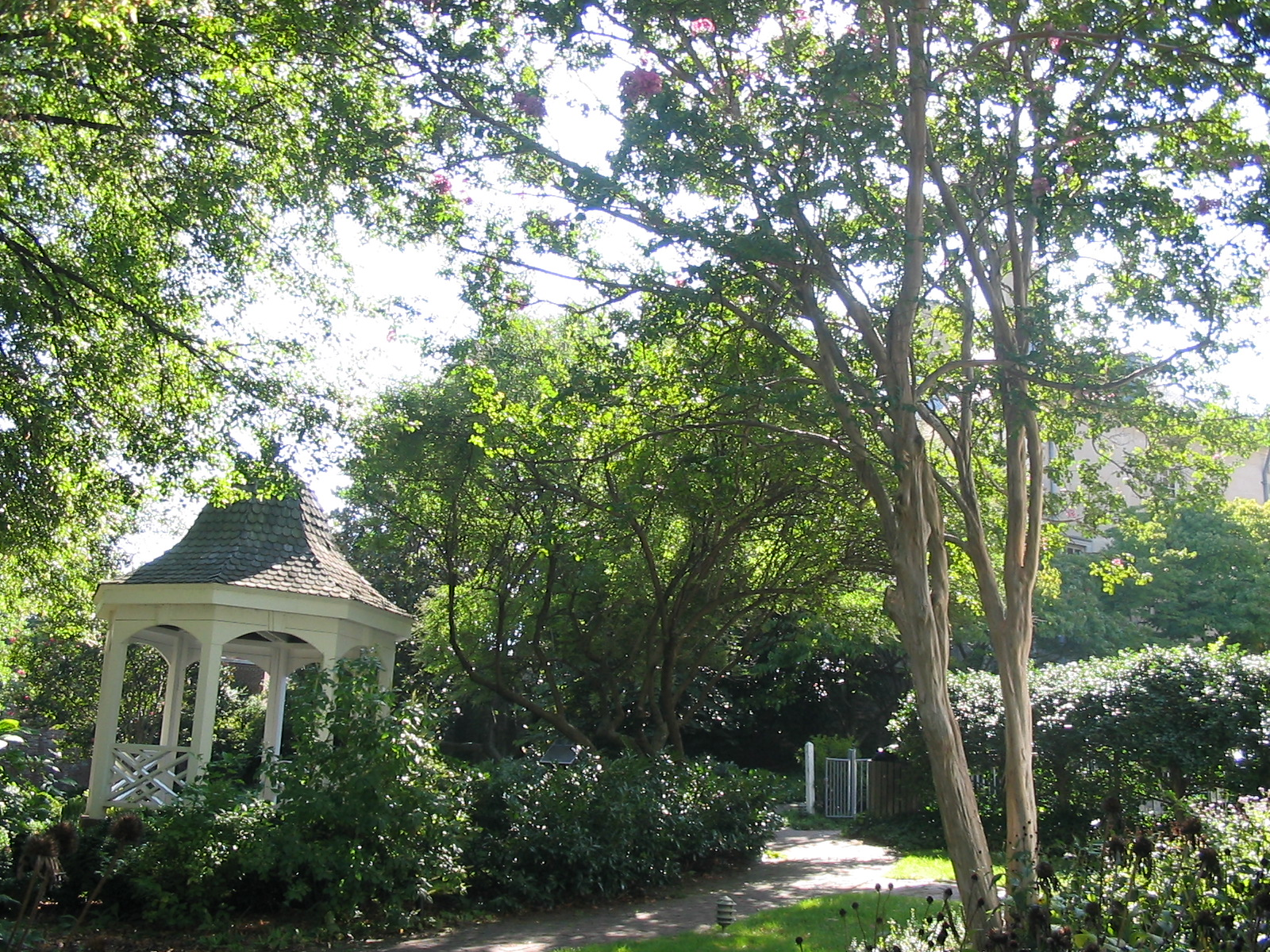 Image taken by me for Wikipedia